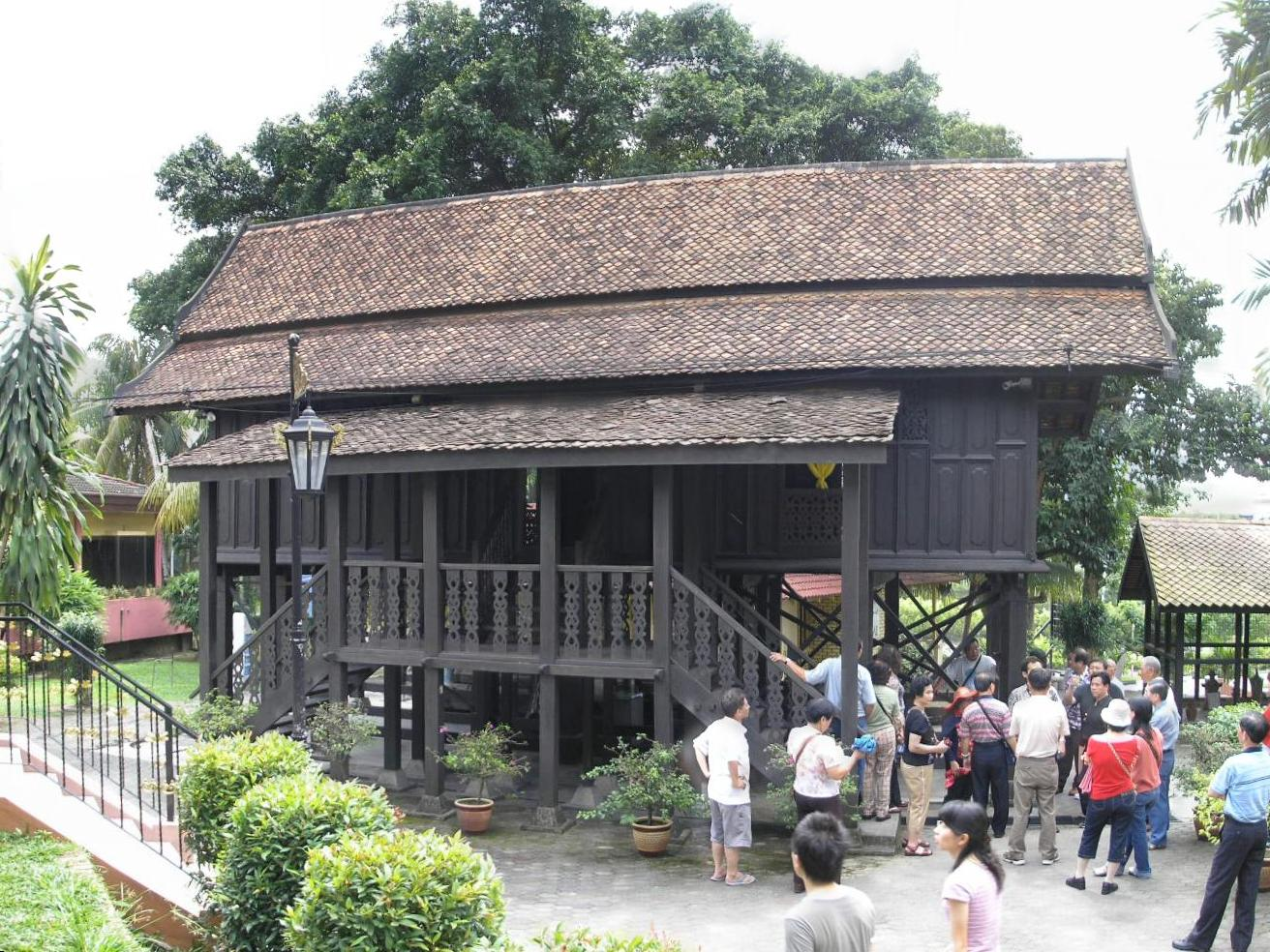 Istana Satu. This building, which is called Istana Satu, was erected by Al Marhum Sultan Zainal Abidin III, Sultan of Terengganu in 1884 in the compound of Kota Istana Maziah, Kuala Terengganu. This building is of Terengganu Malay traditional architecture, in the form called "Rumah Tian Dua Belas". The wood used is cengal. Istana Satu was erected in the Muzium Negara compound in April 1974.